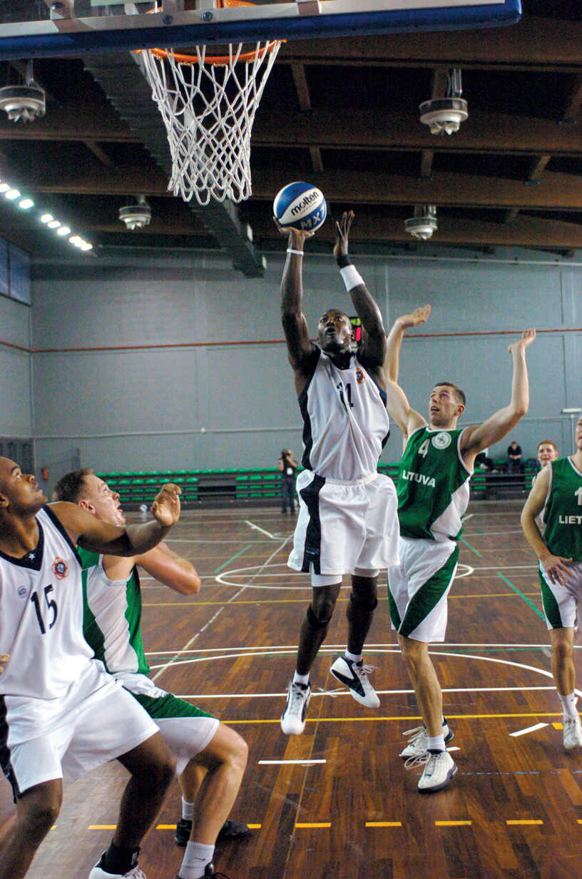 031206-N-6967M-001 Basketball was among the sports showcased at the 2003 Military World Games in Catania, Italy. The Military World Games consists of 86 participating countries and are designed to promote "Peace through Sports.” Russia won the overall medal competition at the games with 108, including 39 gold. The United States, suffering from a lack of participation, was 18th with four medals. (All Hands, April 2004, pg. 16) Photo by Photographer's Mate 1st Class (AW) Shane T. McCoy. (RELEASED)